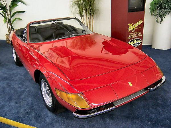 1971 Ferrari 365 GTS Daytona at the Imperial Palace Auto Collections in Las Vegas, Nevada, USA.